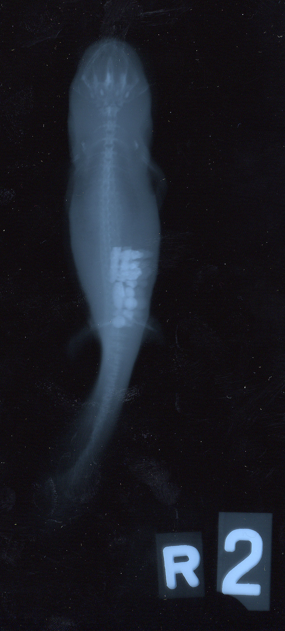 This animal was x-rayed several times as part of a research project over a period of two years. It was a normal healthy adult (26.3cm 159.5 gm) at the beginning of the project and lived several more years after the project ended. Axolotls seek out gravel to swallow, presumably as gastroliths.